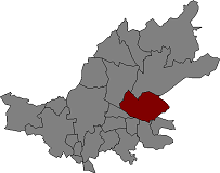 Location of Vila-rodona in Alt Camp